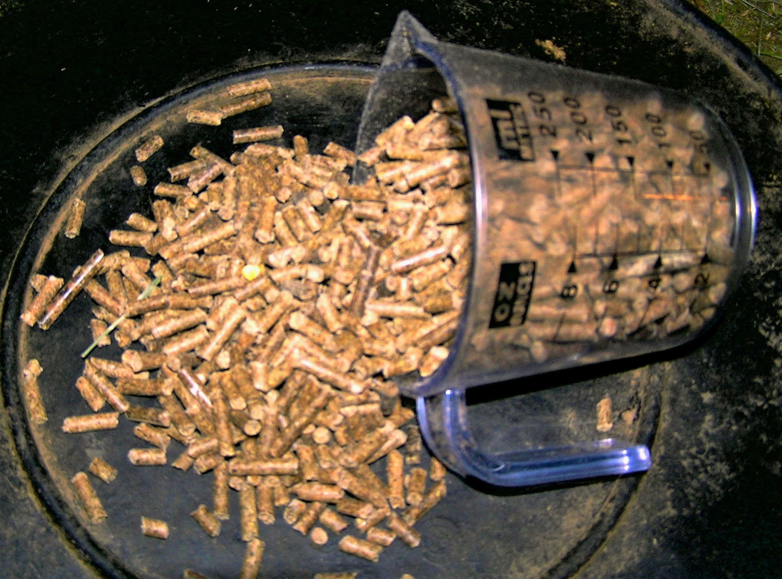 a manufactured pelleted ration for horses, made of grains and other plant products with vitamins and minerals added